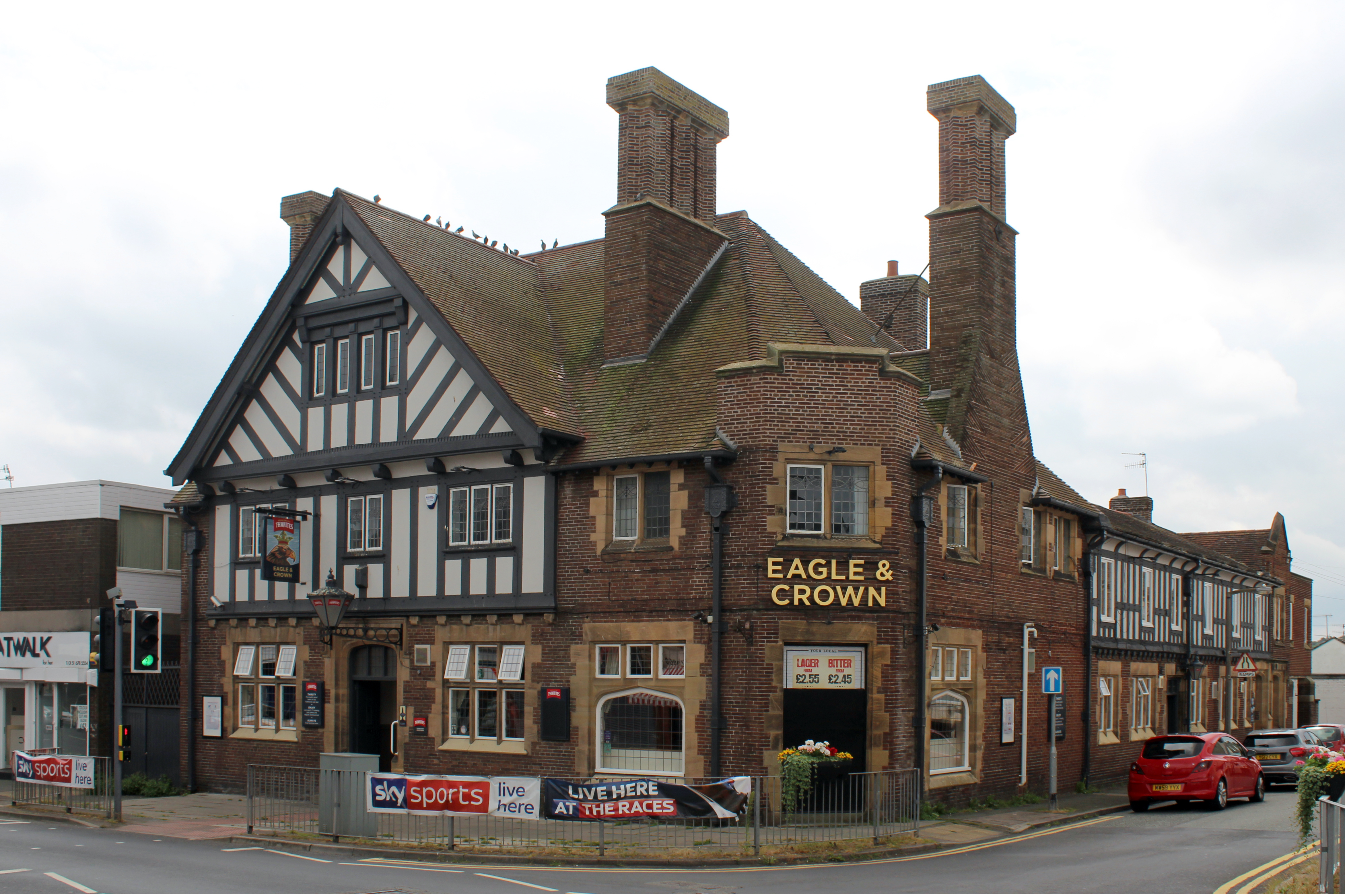 Viewed across Ford Road